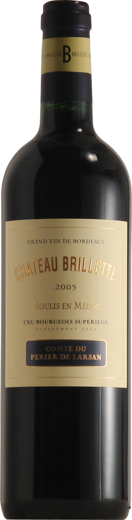 a bottle of wine from Chateau Brillette, Moulis-en-medoc, France